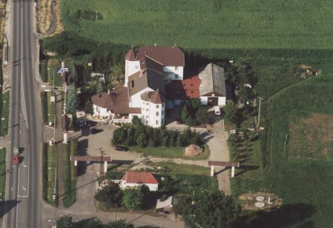 Forró, Hungary, aerialphotogrpahy